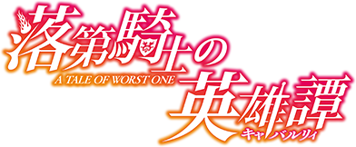 Rakudai Kishi no Cavalry logo